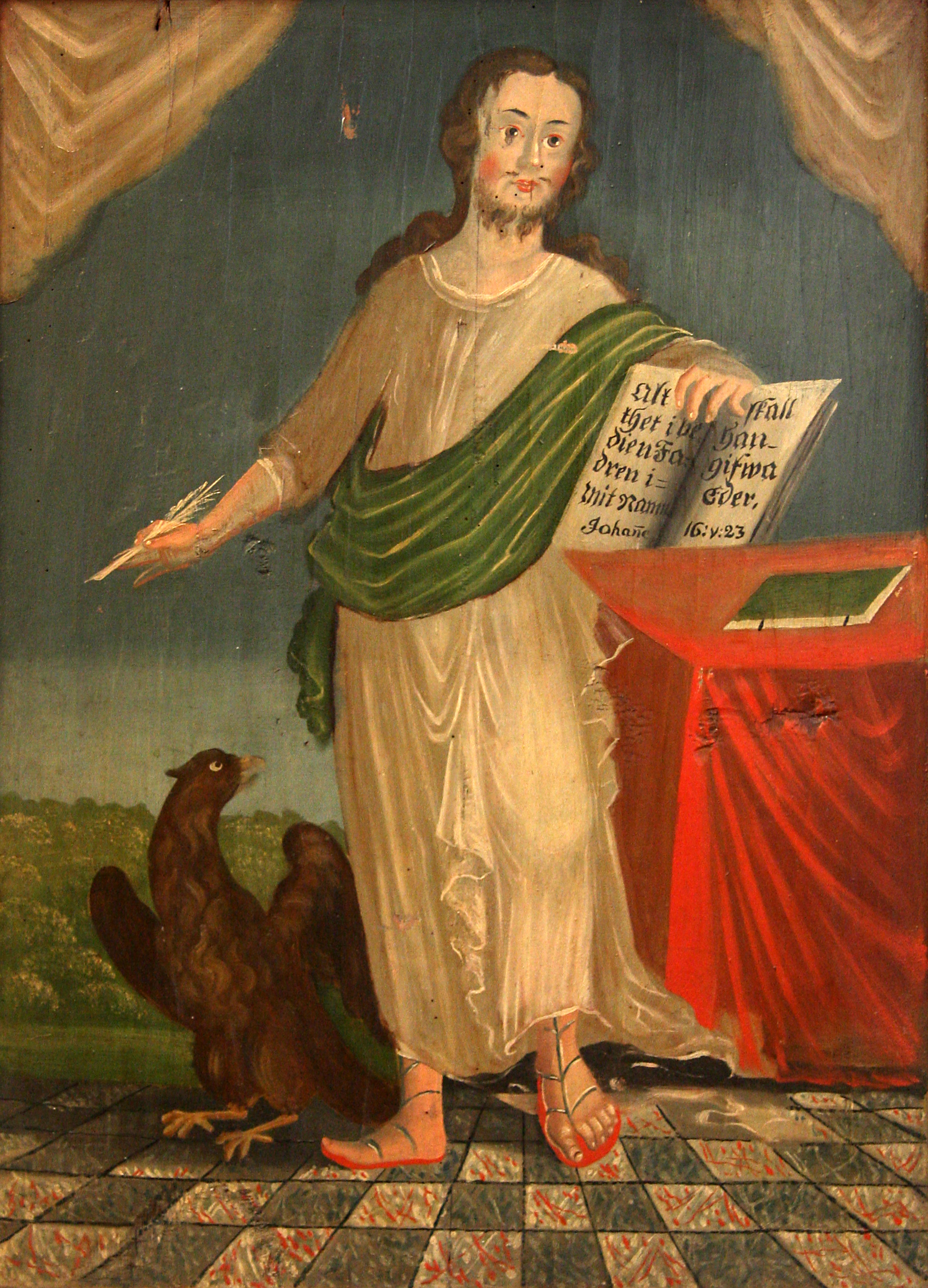 Saint John the Evangelist on a 17th century painting by unknown artist in the choir of Sankta Maria kyrka in Åhus, Sweden.